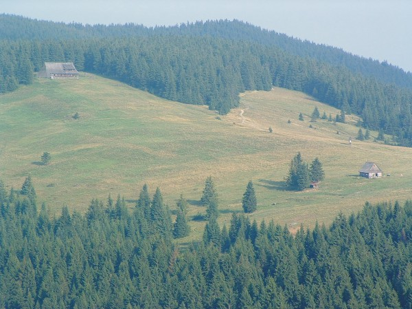 Hala Długa, view from Czoło Turbacza, Gorce.